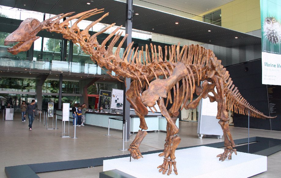 Amargasaurus mounted skeleton cast Foyer - Melbourne Museum Photo: cas Liber